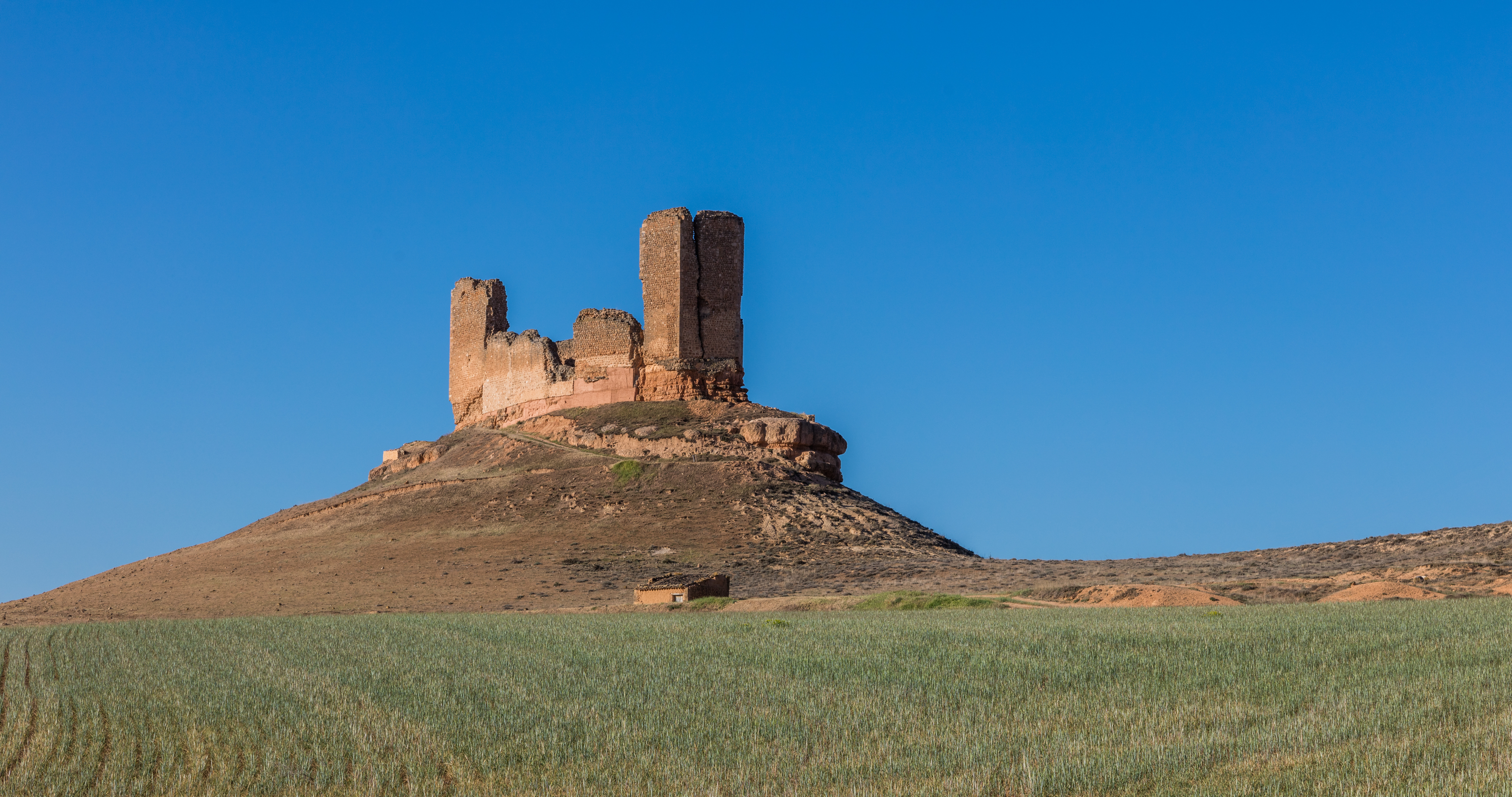 Remains of the castle of Montuenga, a fortification of the 11th century located in Montuenga de Soria, Province of Soria, Spain.